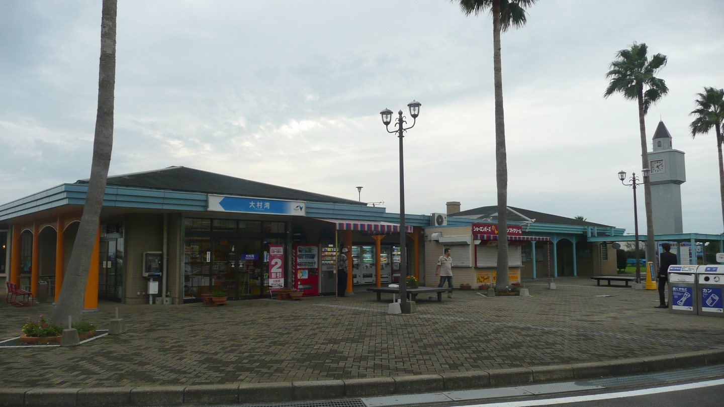 Omurawan Rest Area (Nagasaki Expressway - Higashisonogi Town, Nagasaki, Japan)